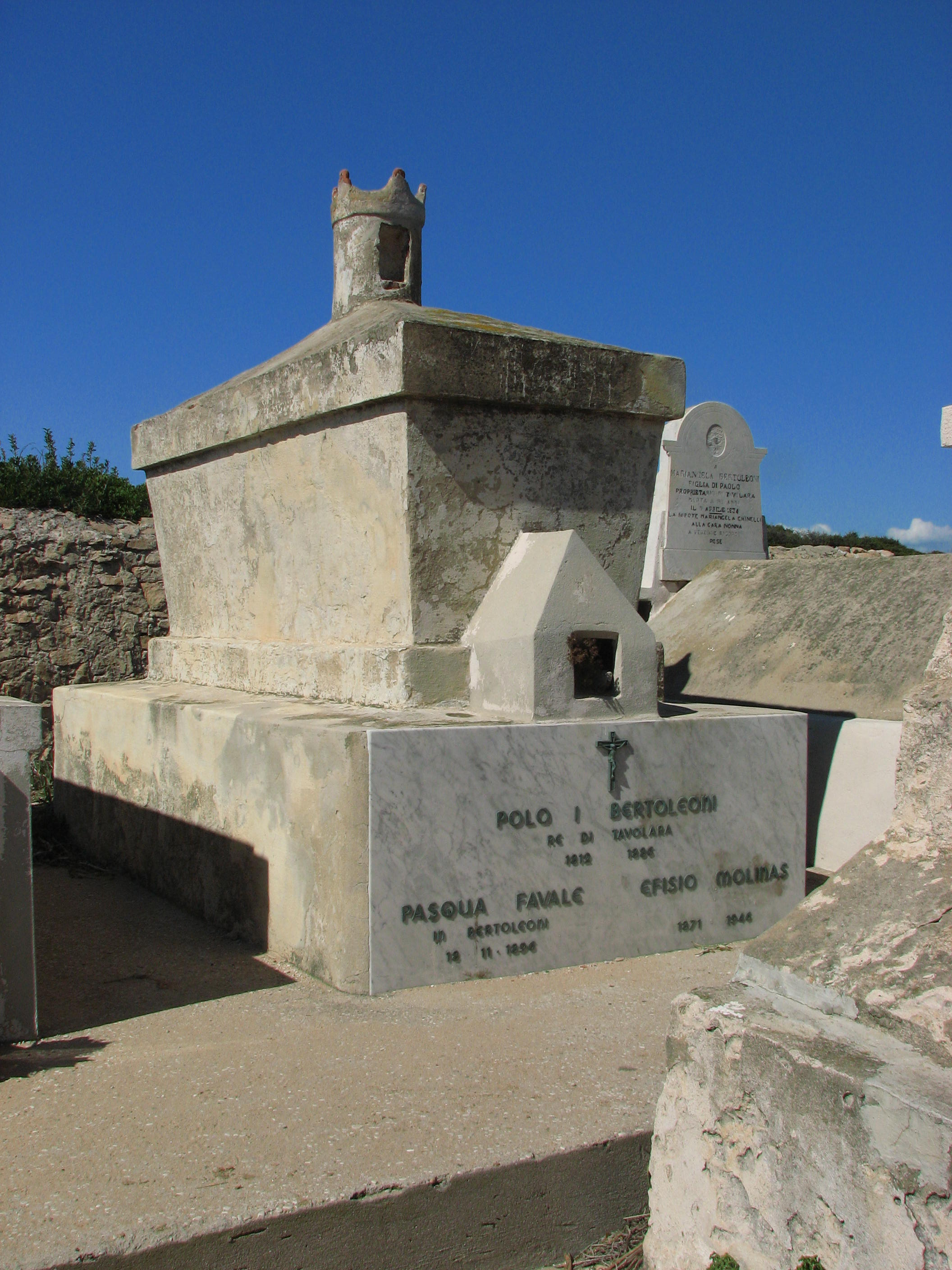 Tavolara Island, one of the "king's" grave